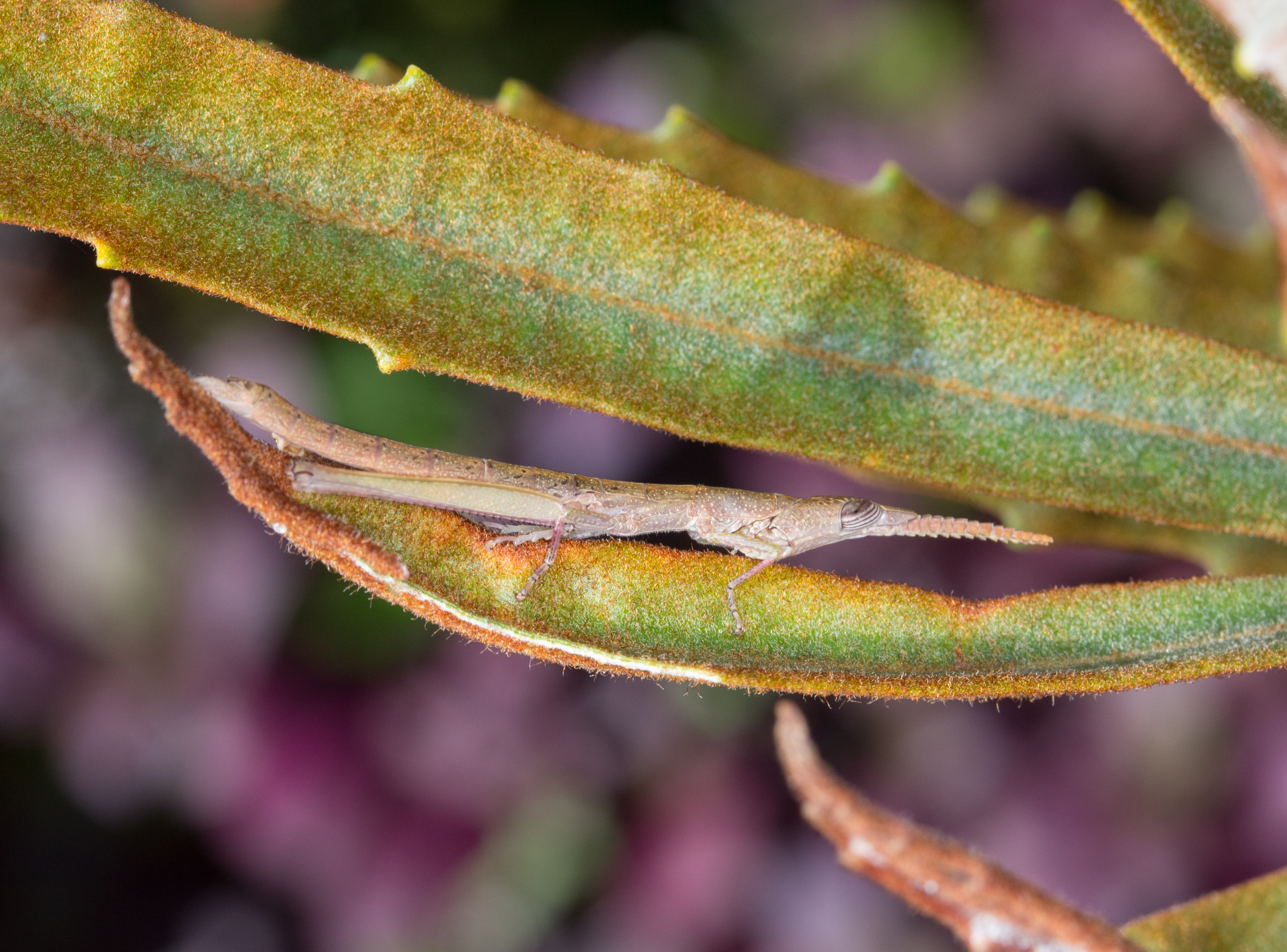 Green leg matchstick grasshopper